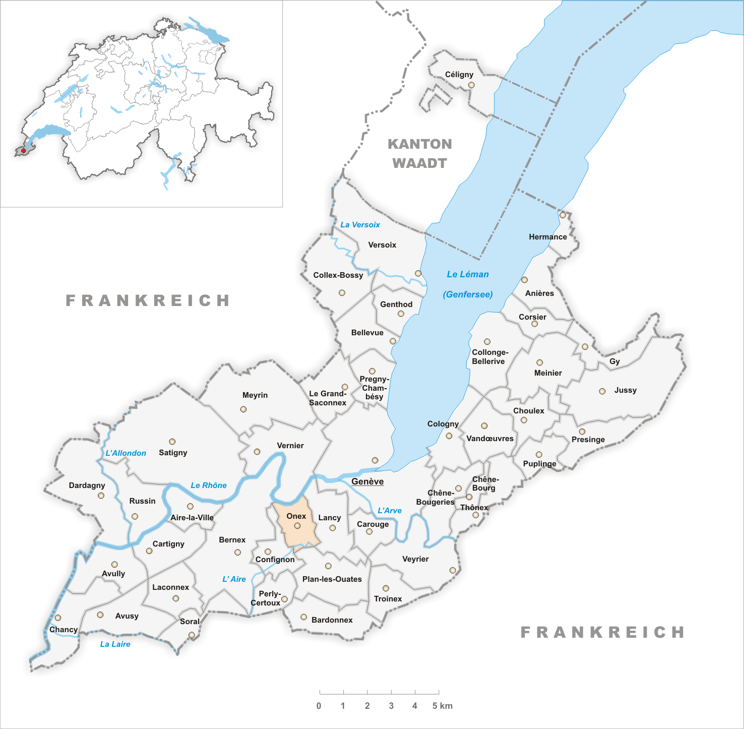 Municipality Onex